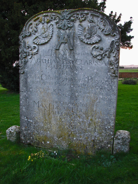 Murder She Wrote One of our more famous people of the village - Agatha Christie's grave in St Mary's Church yard, Cholsey. The famous playwright lived in Winterbrook which, though next door to Wallingford, is within the parish of Cholsey.